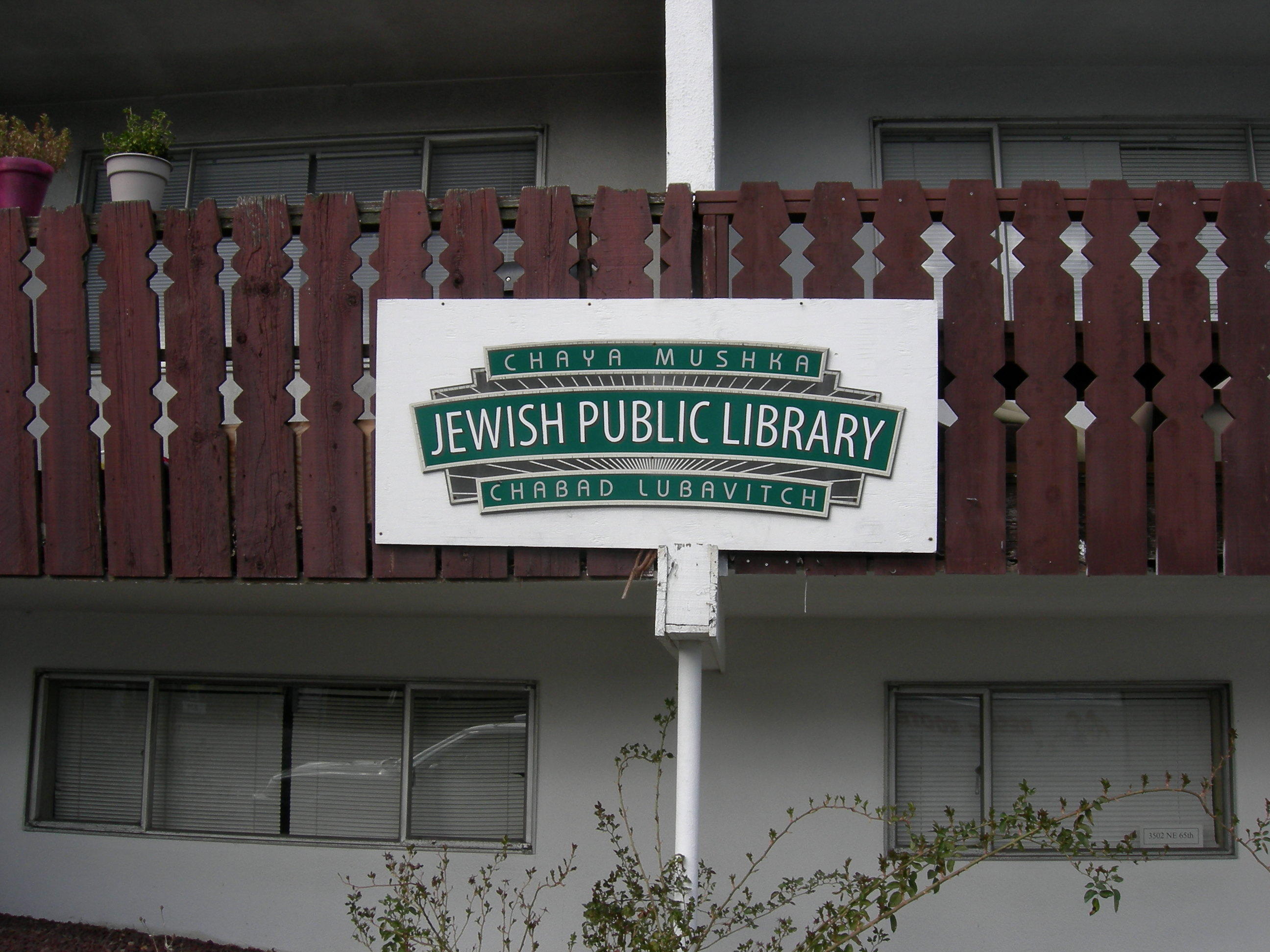 Chaya Mushka Jewish Public Library (Chabad / Lubavich), Seattle, Washington.